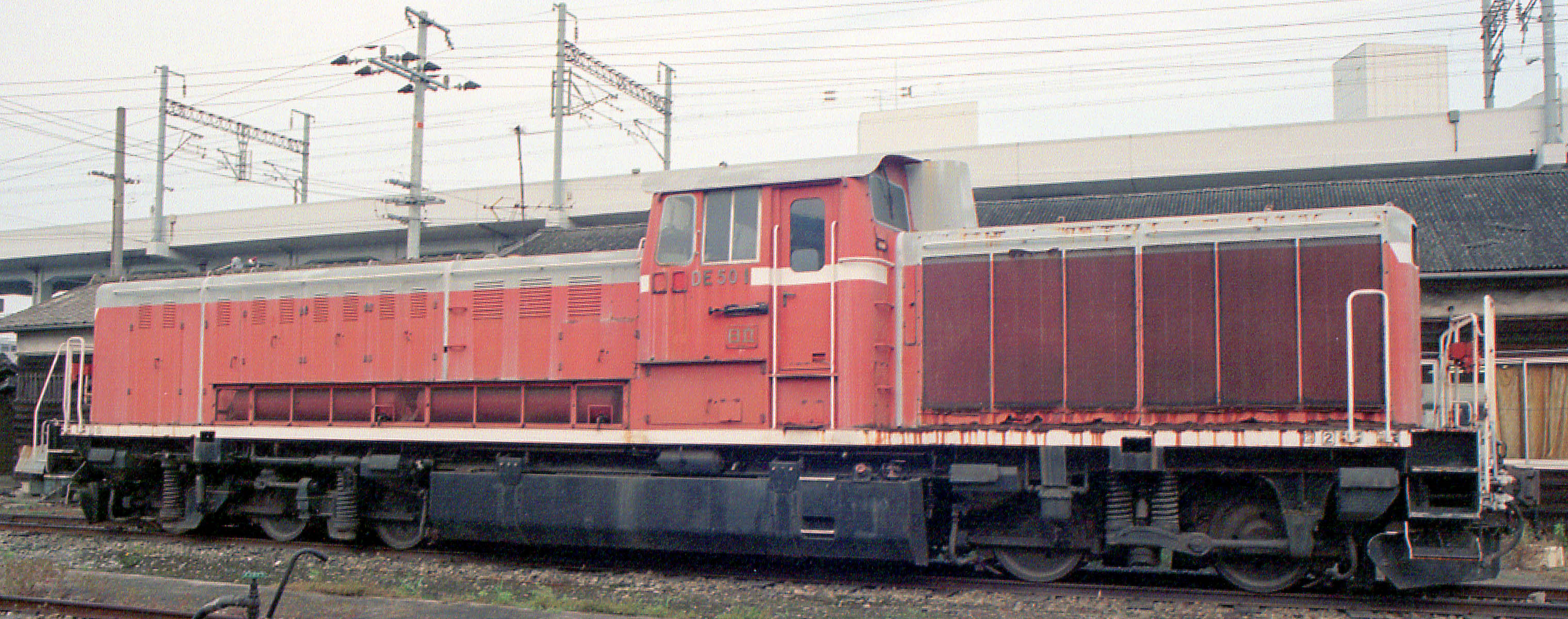 JNR Type DE50 Diesel Locomotive No.1 at Okayama